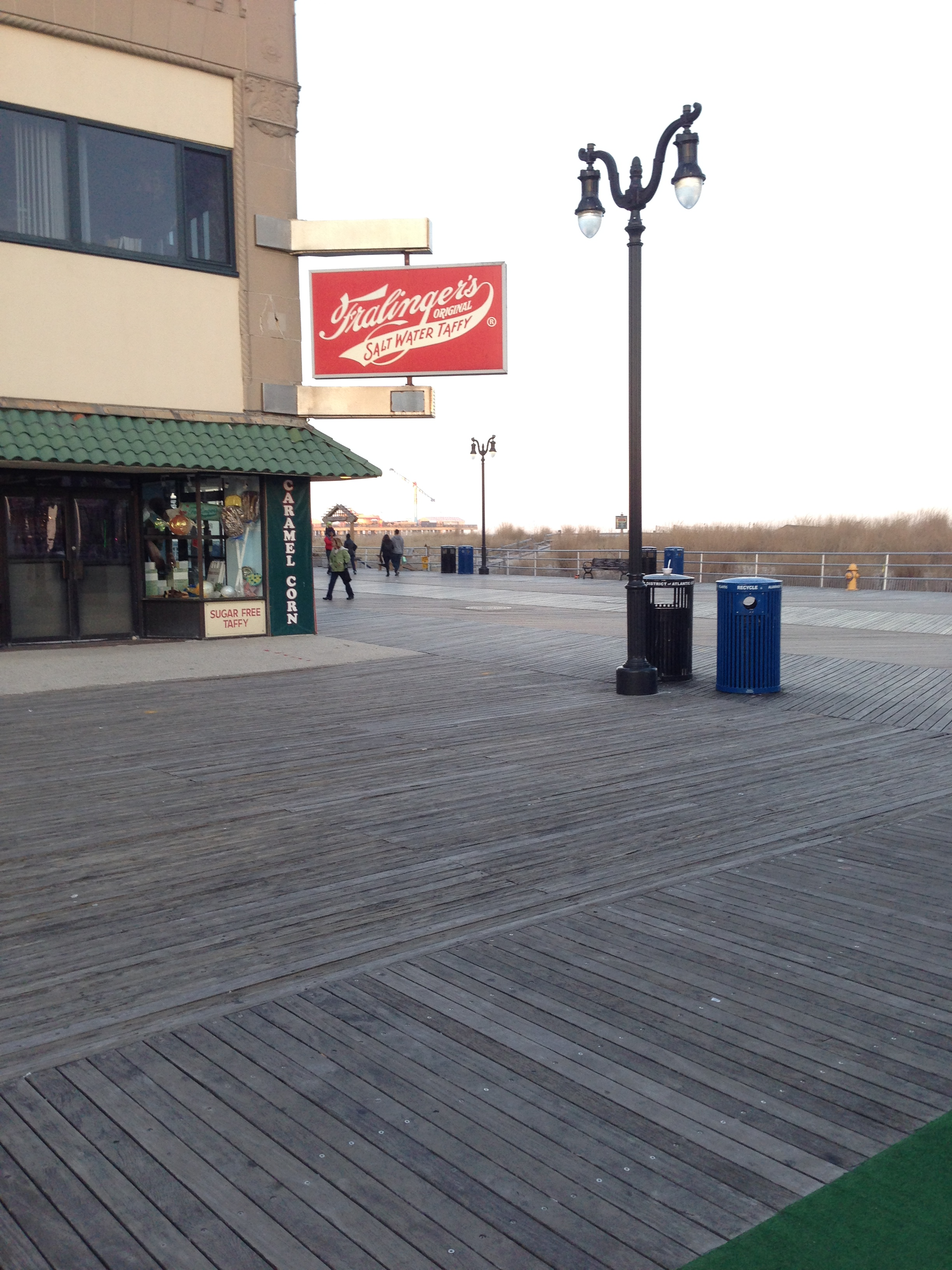 Fralinger shop at Boardwalk and Tennessee Avenue. -PJFerrara, 2014.;Other information: Fralinger shop at Boardwalk and Tennessee Avenue. -PJFerrara, 2014.